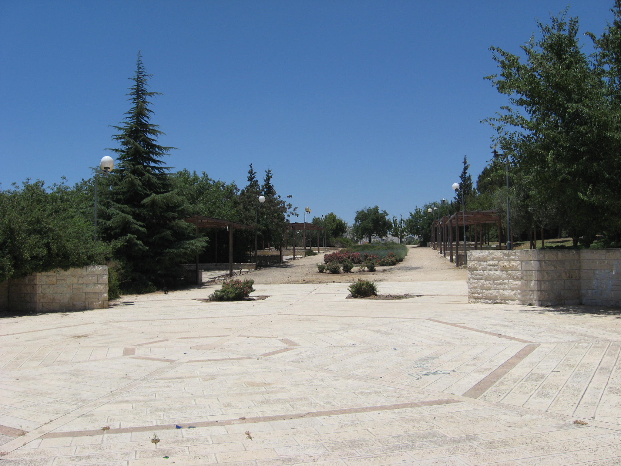 Meir Kahane Tourist Park, Kiryat Arba, Occupied Palestinian Territories.